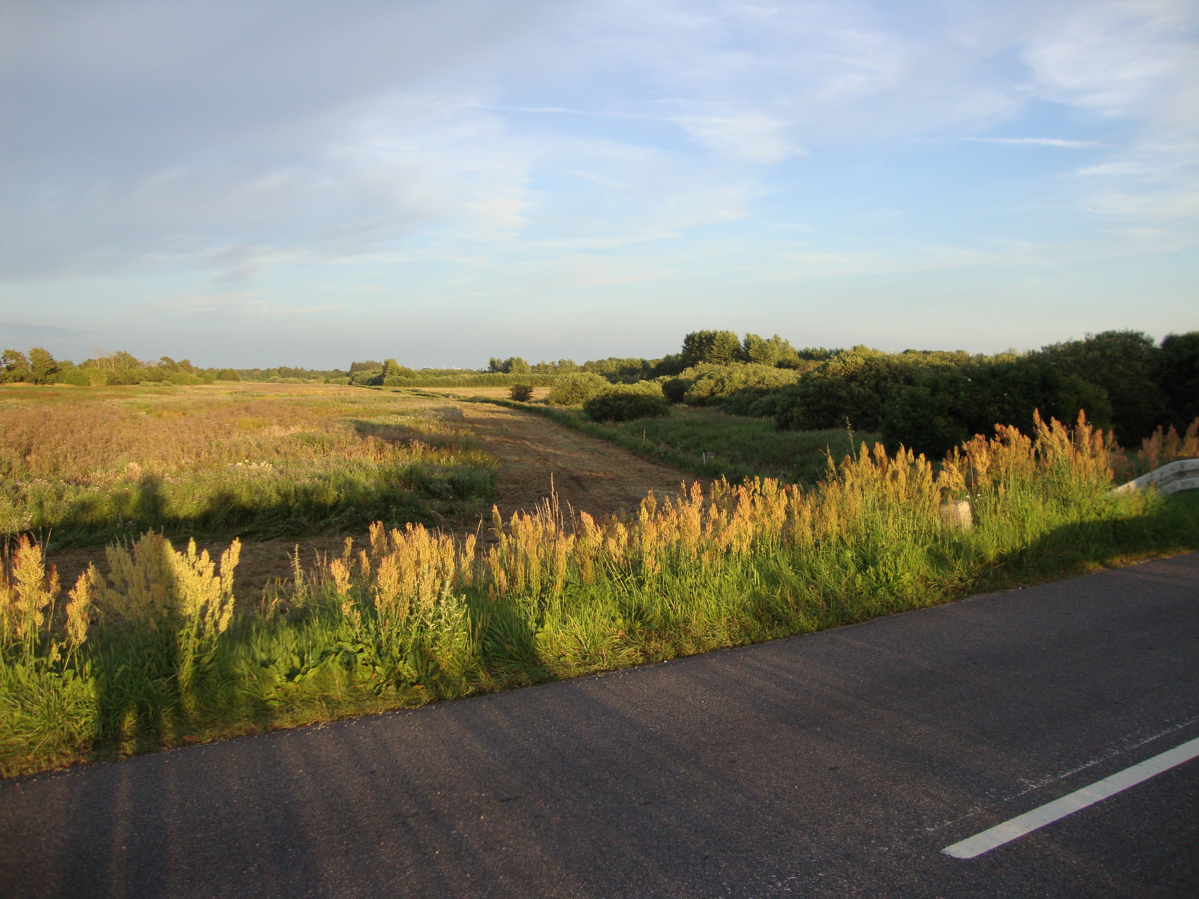 The stream Lindholm Å is seen here south of Hvilshøj, Vendsyssel, Denmark